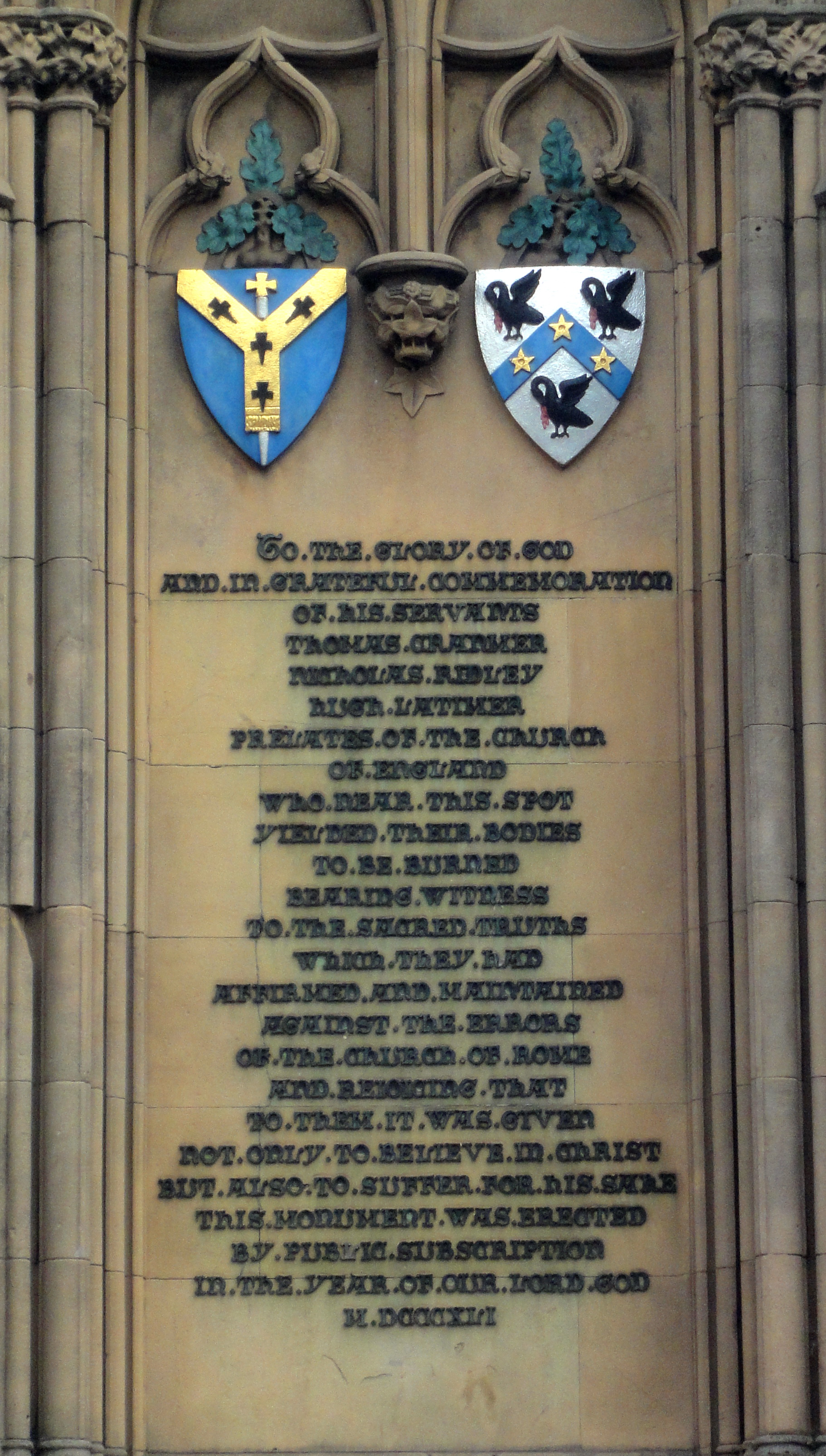 Inscription in the Martyrs Memorial in St. Gile's, Oxford